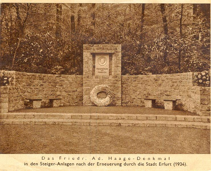 Friedrich Adolph Haage Memorial in Steiger Forest near Erfurt in 1934